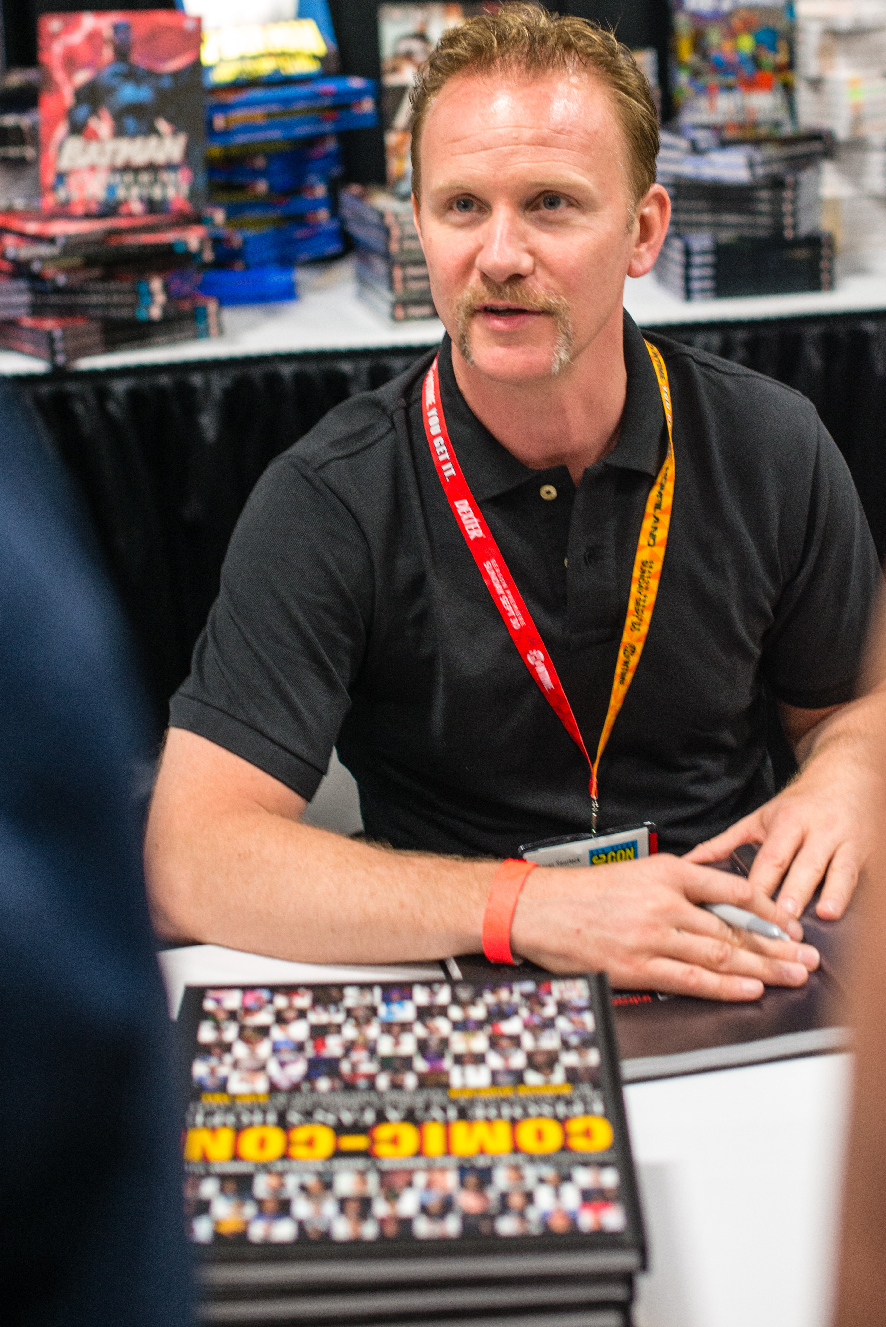 Morgan Spurlock @ Comic-Con 2012